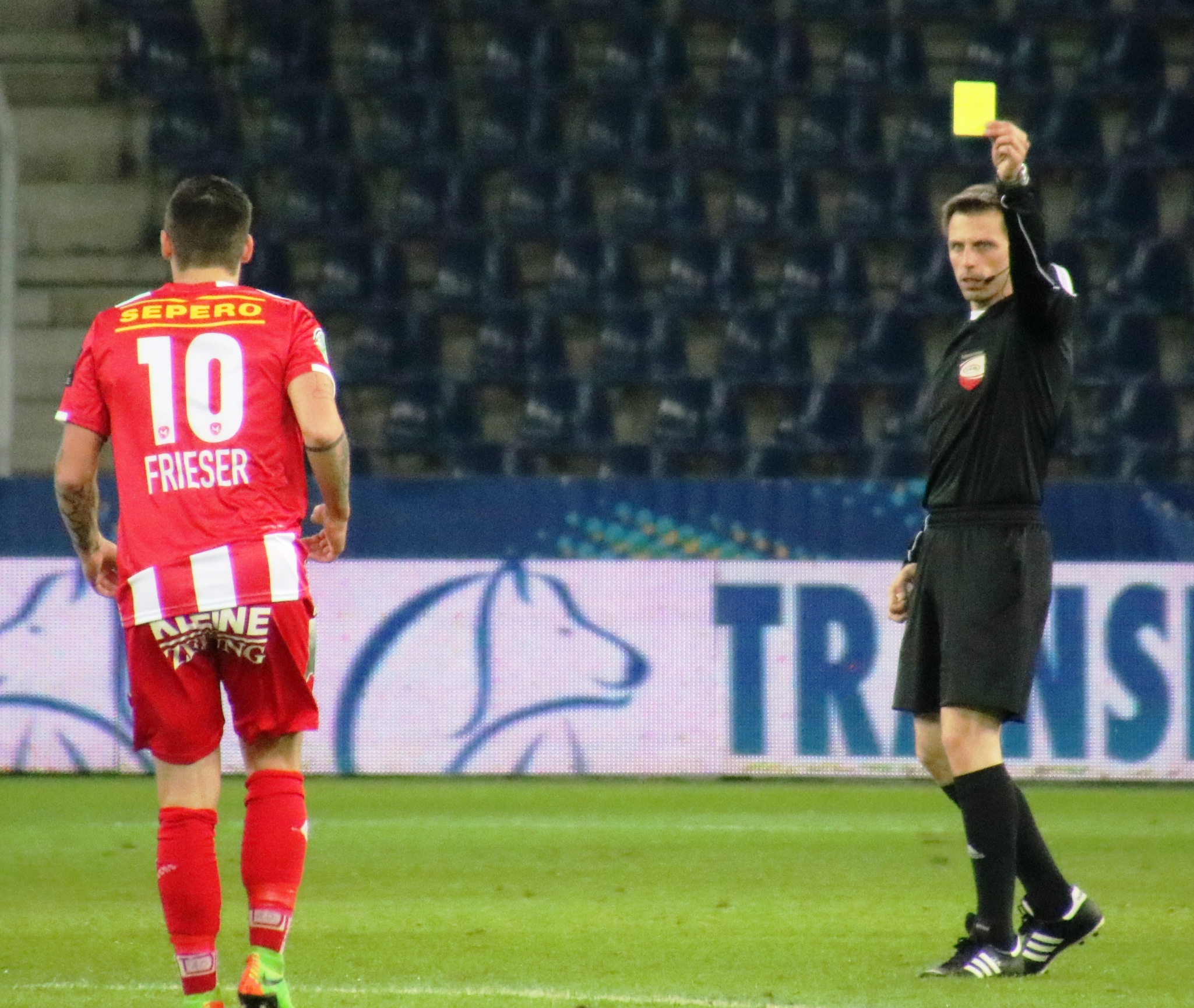 Quarterfinal ÖFB-Cup